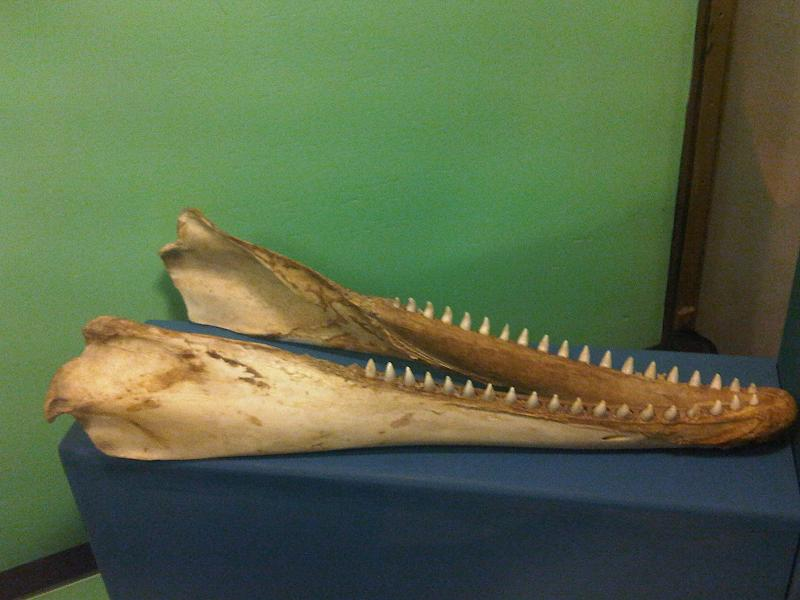 Lower jaw or mandible of a false killer whale (Pseudorca crassidens), at the National Museum of Natural History, Vilhena Palace, Republic of Malta.